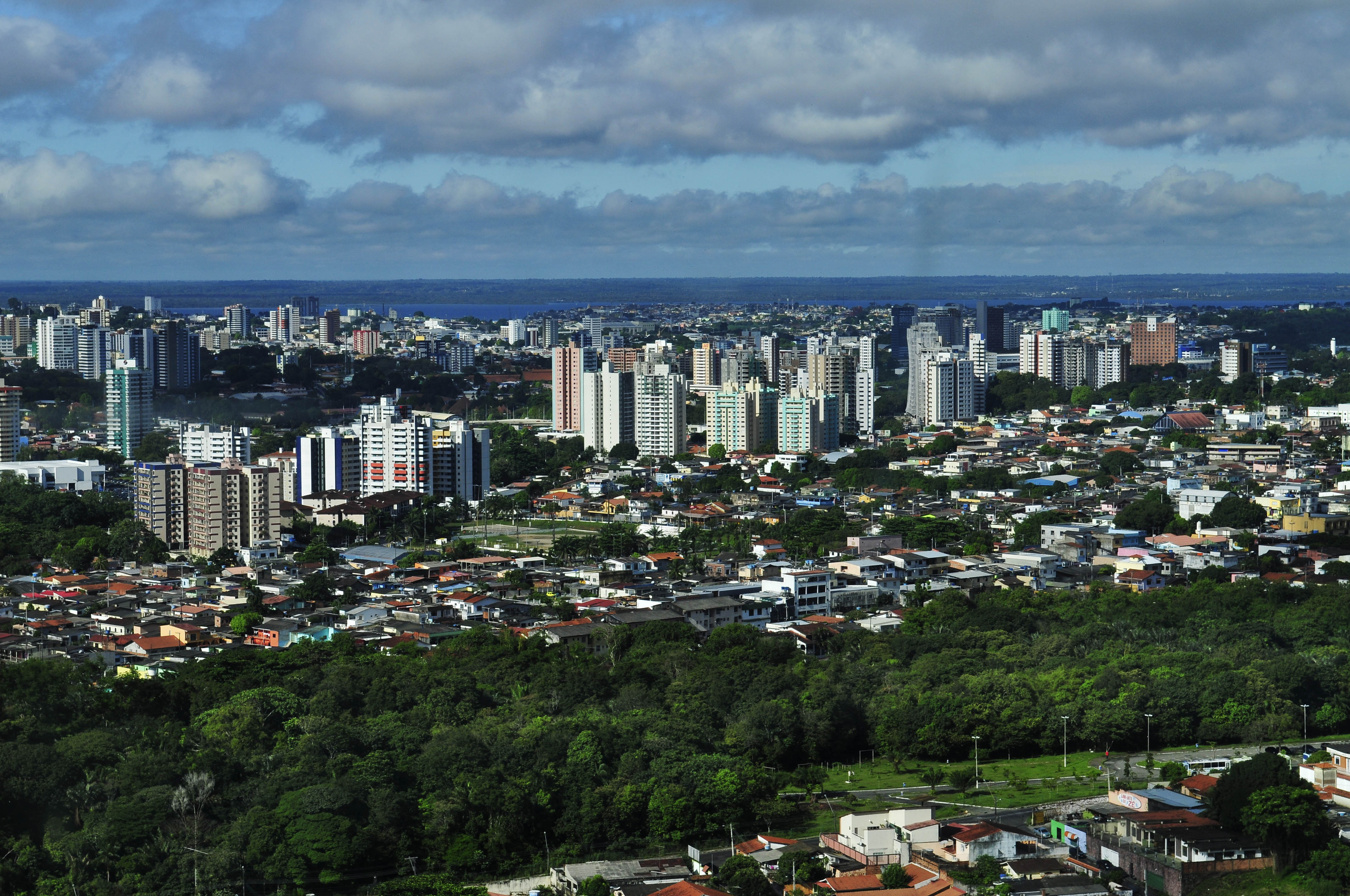 Pic by Neil Palmer (CIAT). Aerial view of Manaus, the capital of the Brazilian state of Amazonas. Please credit accordingly.